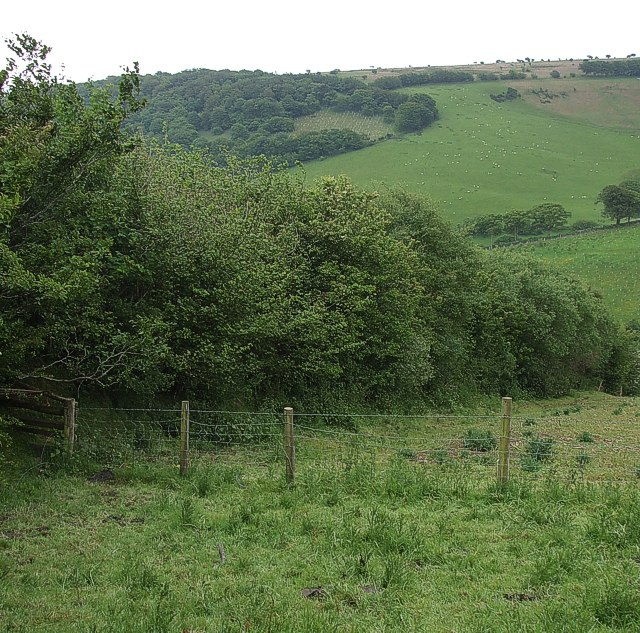 Hedge and fields off Ash Lane This thick hedge strikes off southwards from Ash Lane. In the background sheep can be seen dotting the steeply sloping fields on the far side of Winn Brook's valley.